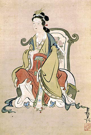 Seiobo (Queen Mother of the West), Japan, Edo period, Hanging scroll; ink and color on silk over paper